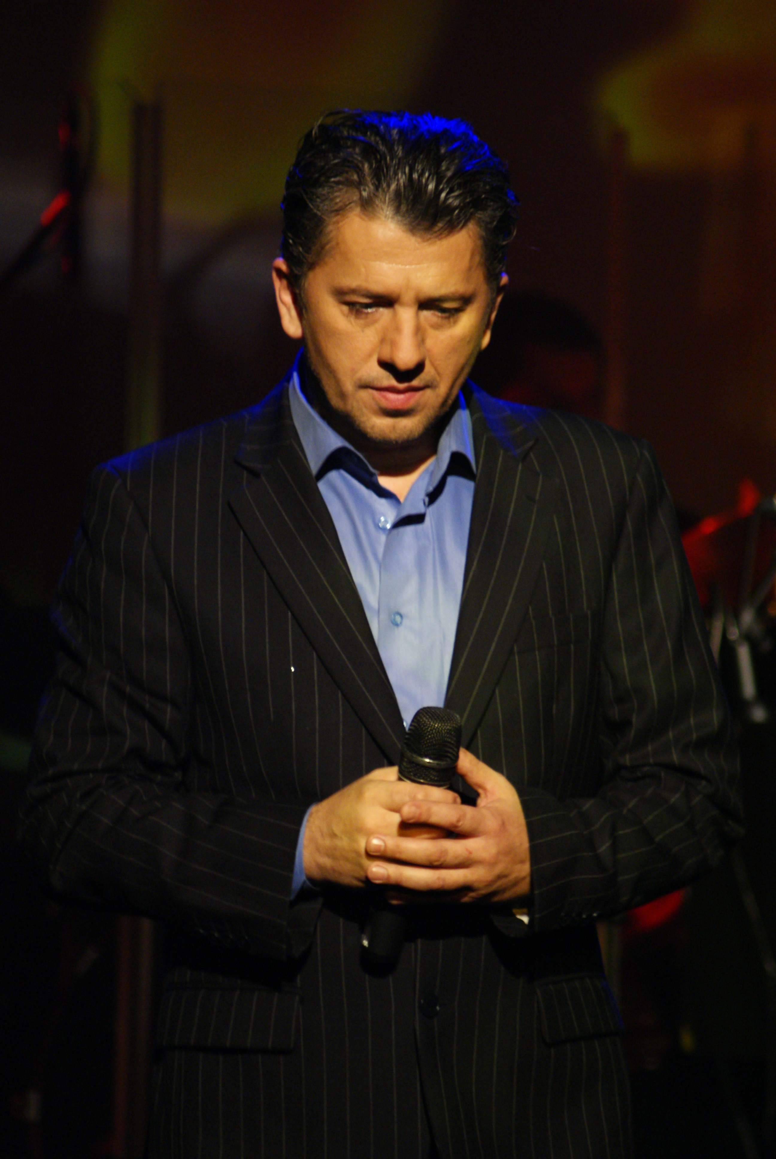 Janusz Józefowicz at the Buffo Theatre